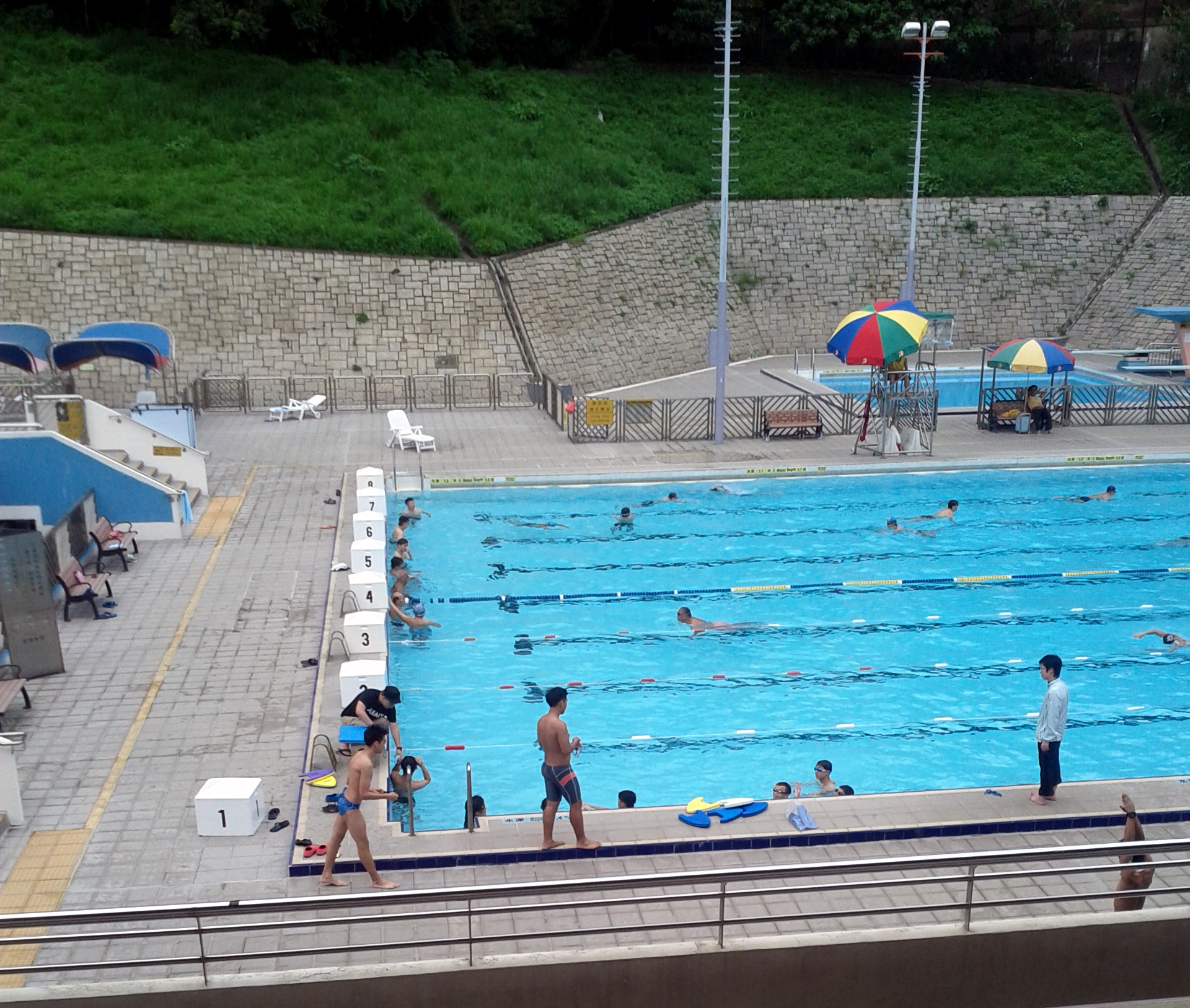 The main pool at Lei Cheng Uk swimming pool complex, Sham Shui Po, Hong Kong. 中文（香港）: 李鄭屋游泳池